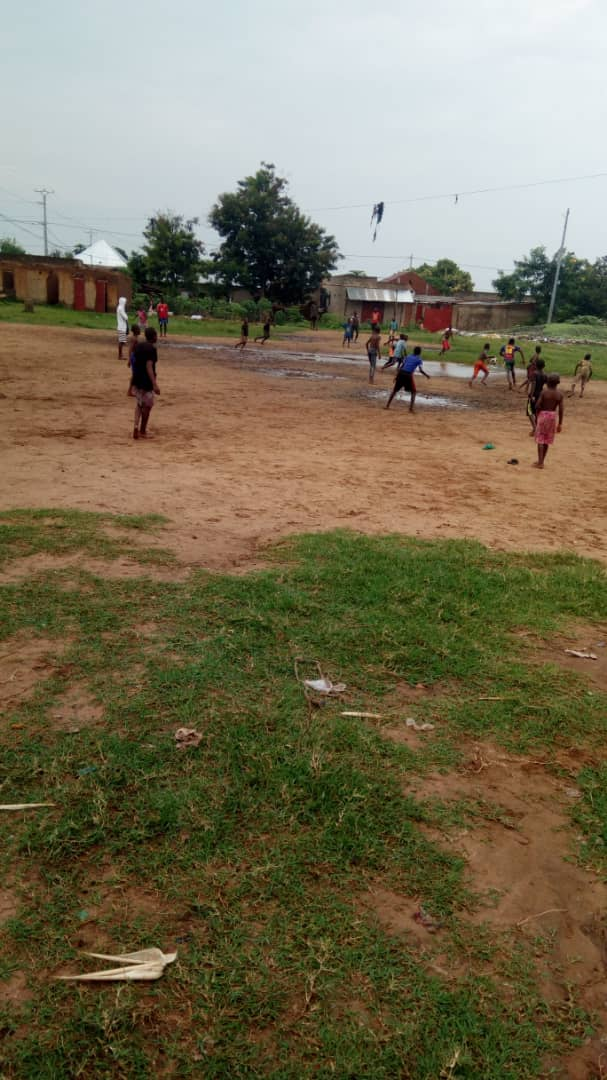 This is an image with the theme "Play" from: Burundi